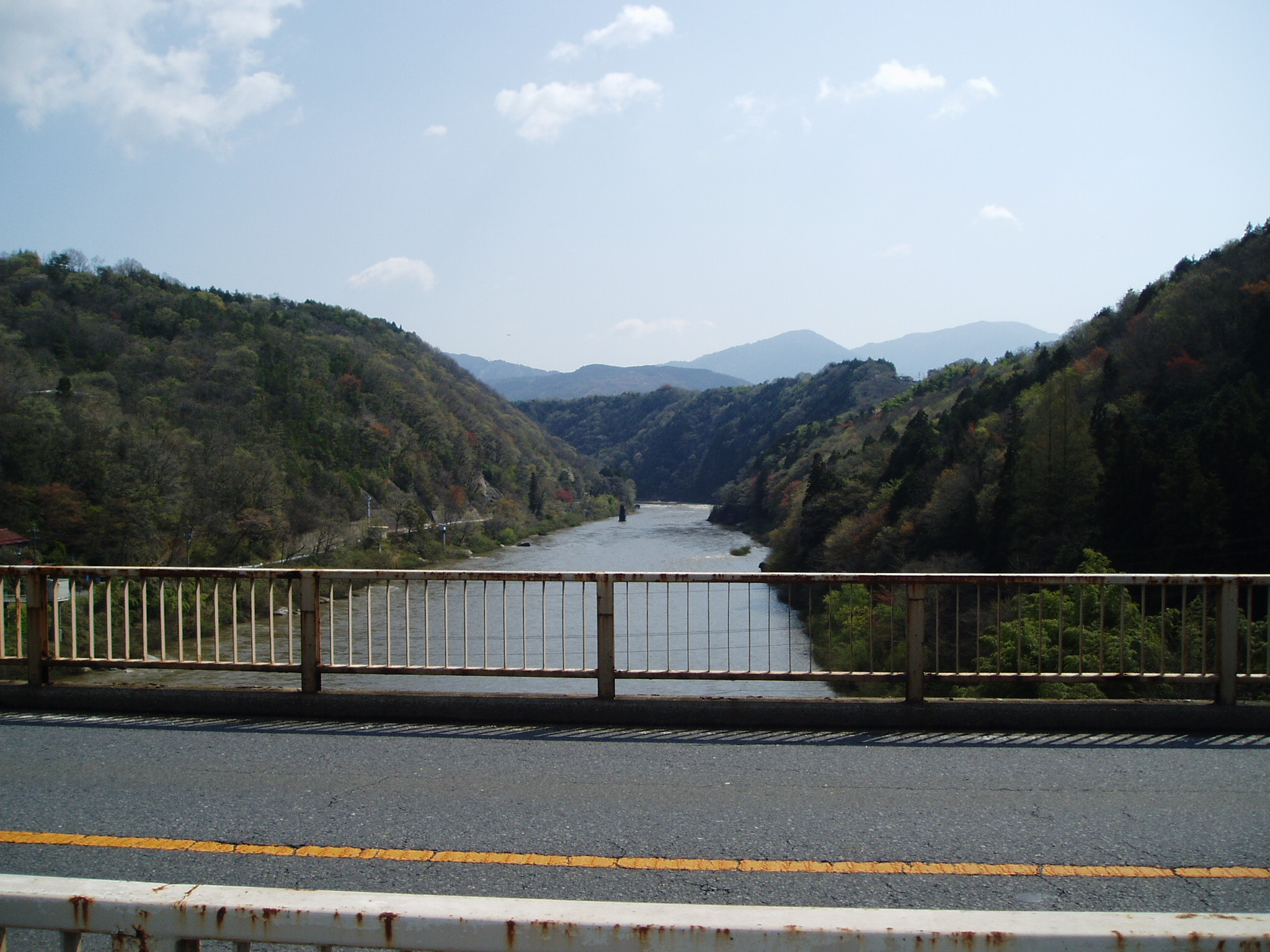 View of the Kiso River upstream from Gyokuzo Bridge